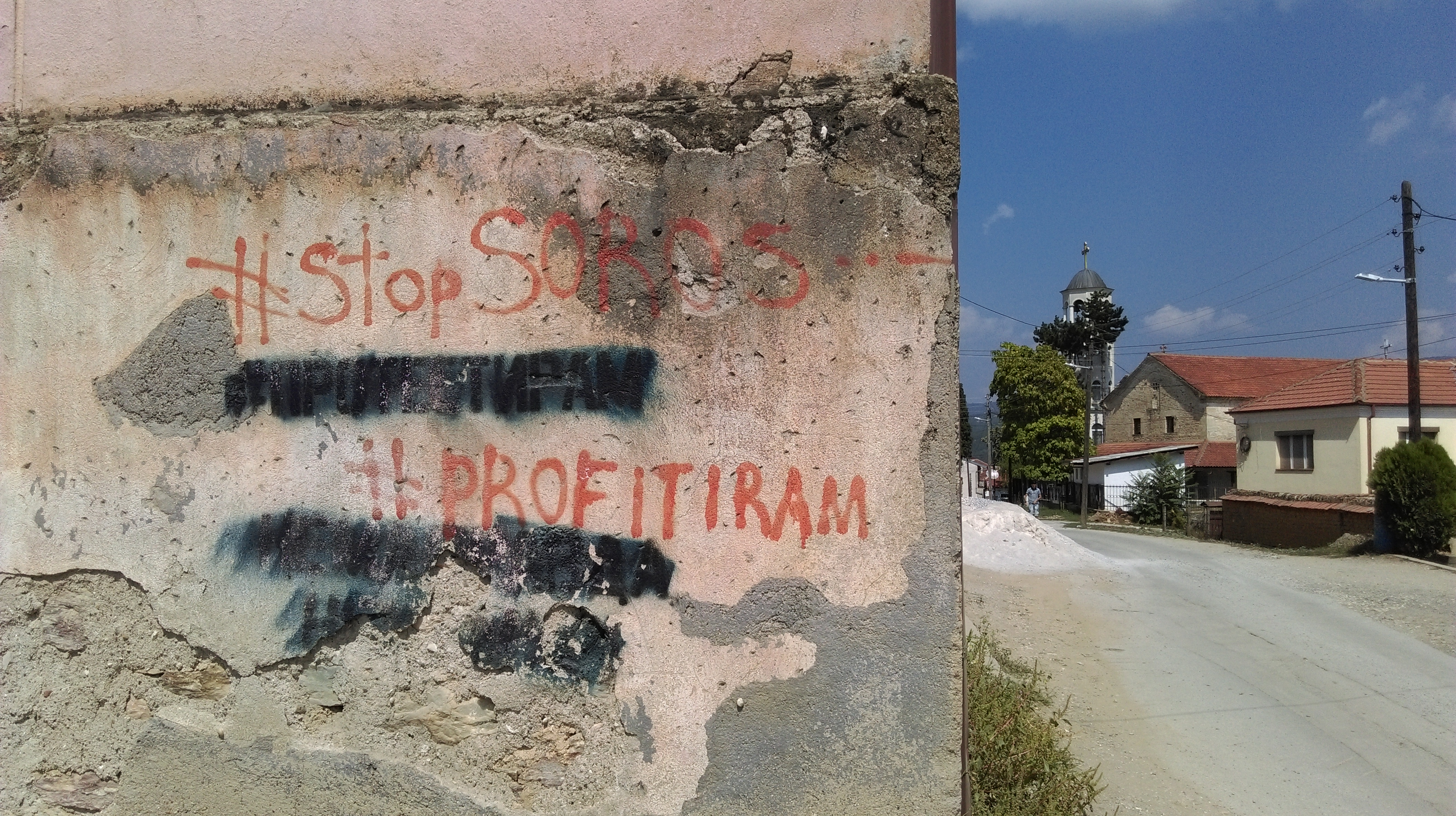 Anti George Soros sentiment graffiti in Resen Macedonia 2018